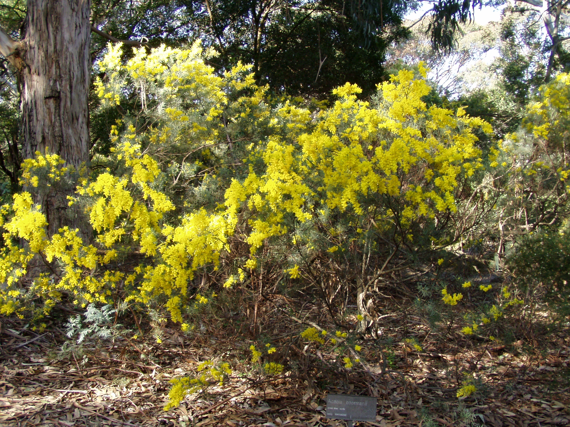 Description: Snowy River Wattle (Acacia boormanii) Location: Australian National Botanic Gardens, Canberra, Australian Capital Territory, Australia Date: 2005-09-21 Source: picture taken by Danielle Langlois Licence: Released under GFDL and Creative Commons licenses by the photographer